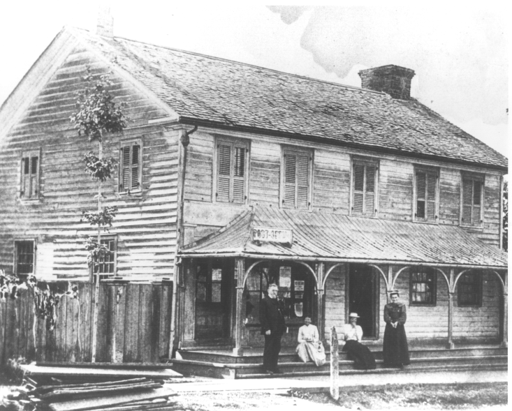 Richmond Hill Post Office, with the Teefy family posing